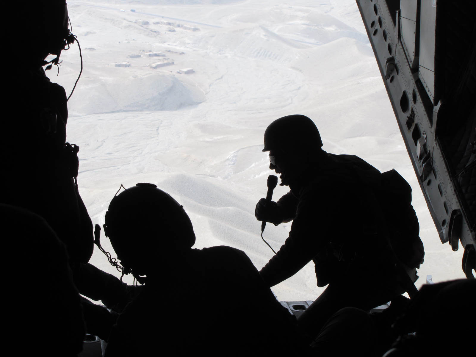 KABUL, Afghanistan - NBC's Today Show, Lester Holt, reported from an Afghan Air Force C-27 during an airdrop mission to facilitate Afghan National Army development of drop zone techniques and procedures on Nov. 21. (U.S. Air Force photo by Capt. Rob Leese/RELEASED).